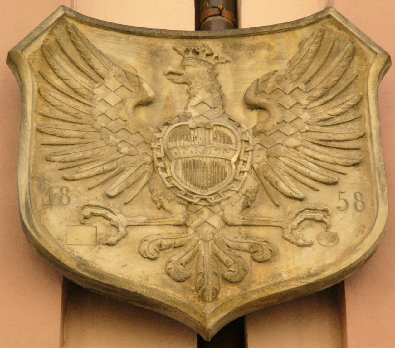 Old coat of arms of Olomouc city (Czech Republic). It was used from 1758 to 1918.